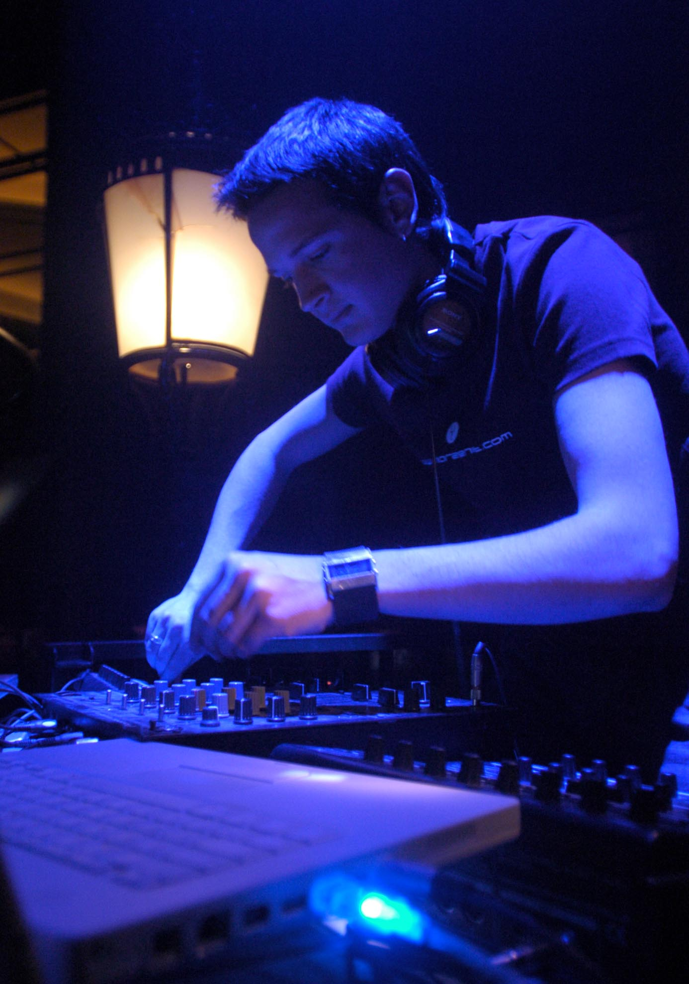 Marc Marzenit